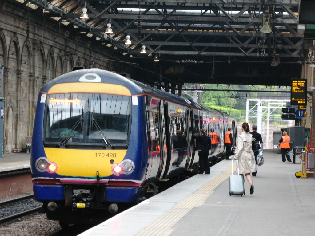 The last passengers hurry down the platform at Edinburgh Waverley station to board 170428 before it leaves for Glasgow Queen Street.